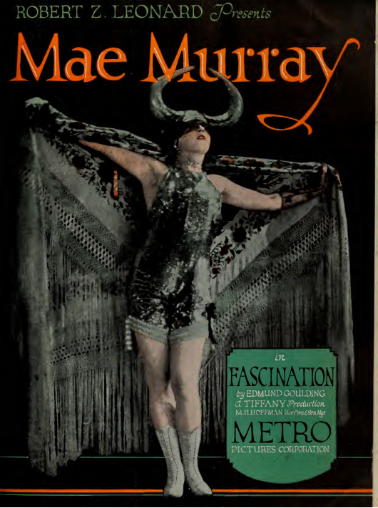 Ad with Mae Murray in Fascination (1922) directed by Robert Z. Leonard.